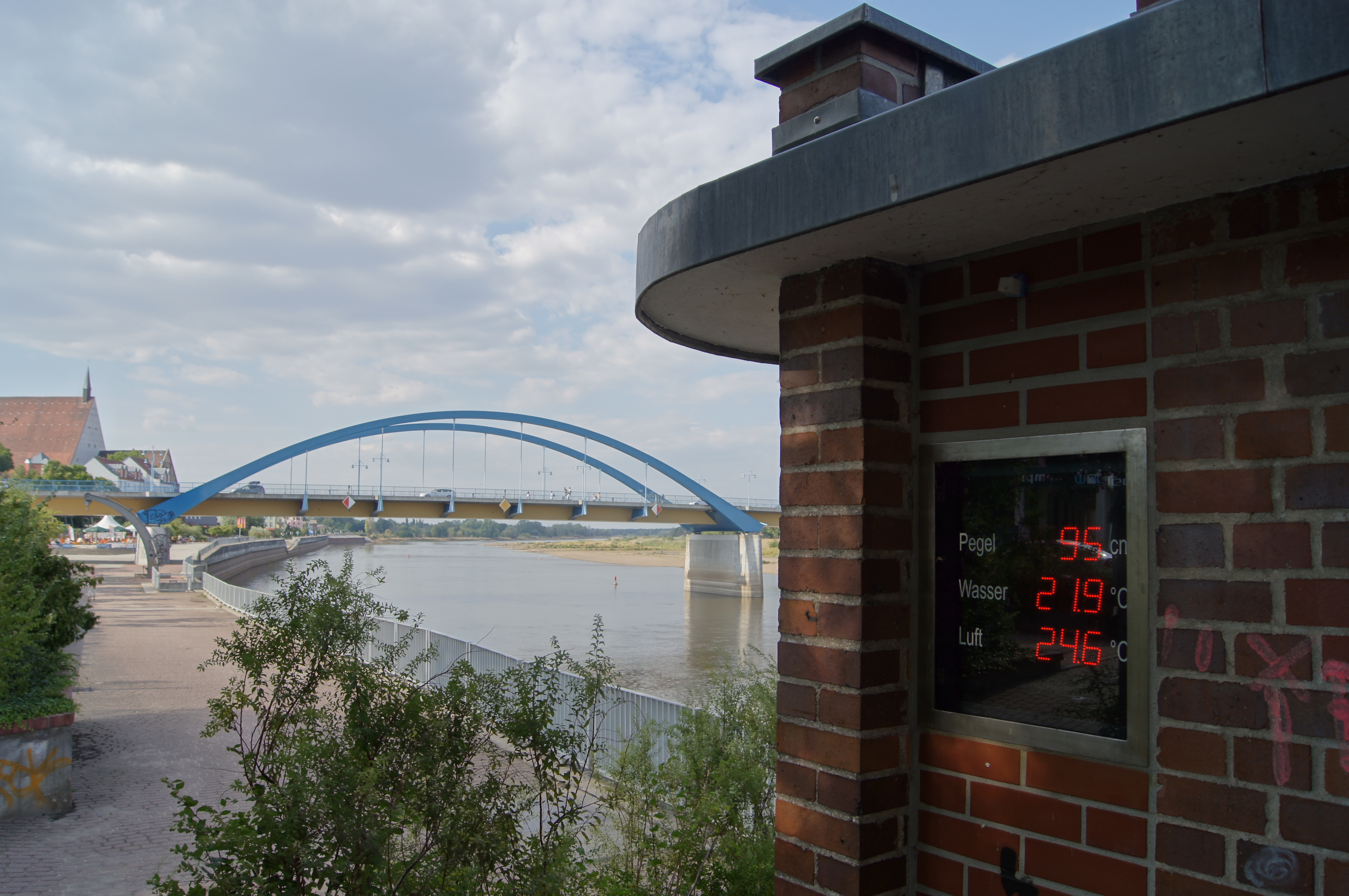 Oder River in Frankfurt (Oder) and Słubice